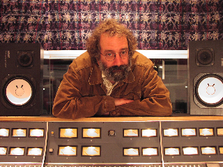 Photo of John Agnello in the studio.